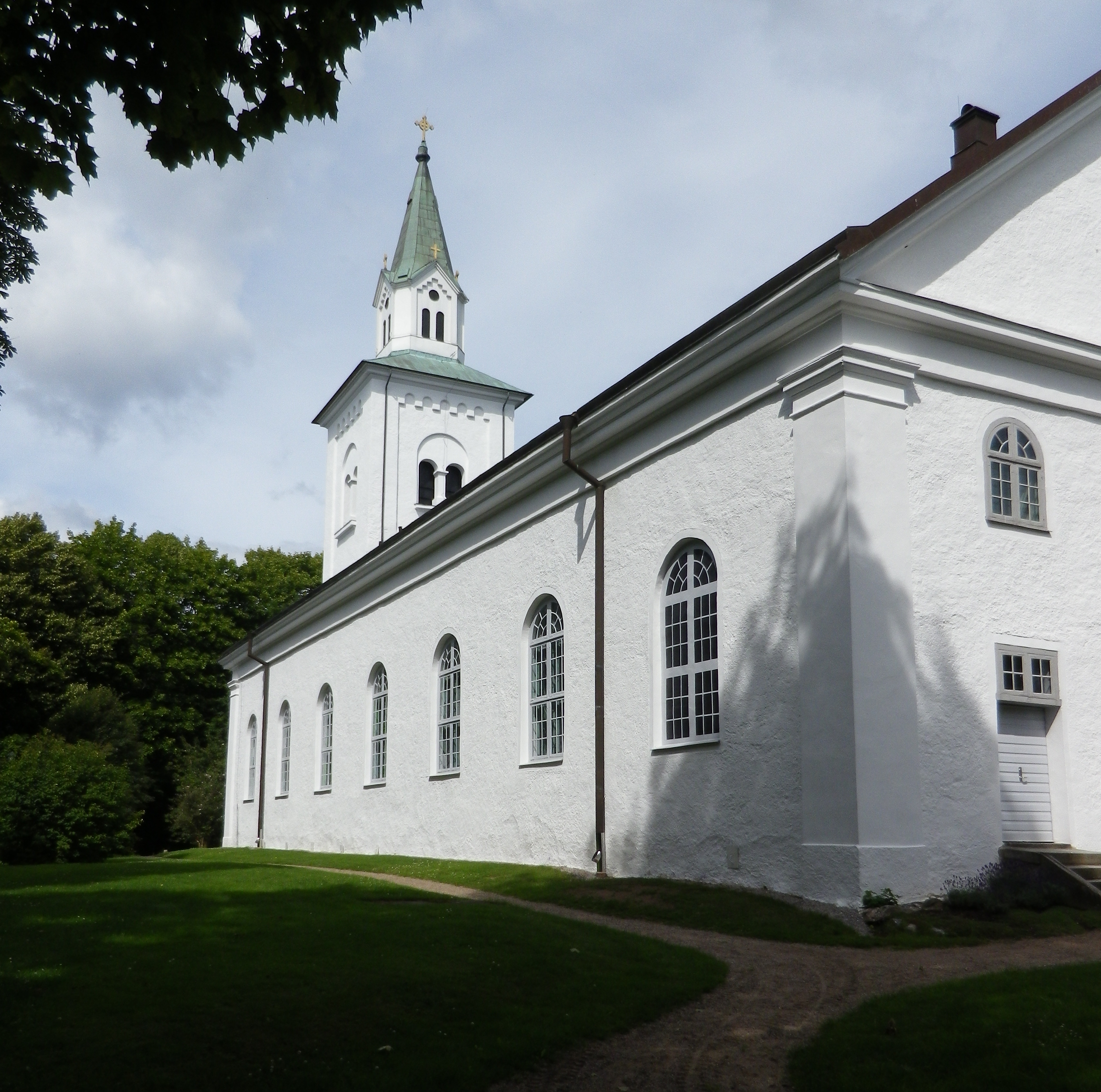 Augerum Church. The church was designed by architect J W Gerss and was built in 1819-1822 in neoclassical style.